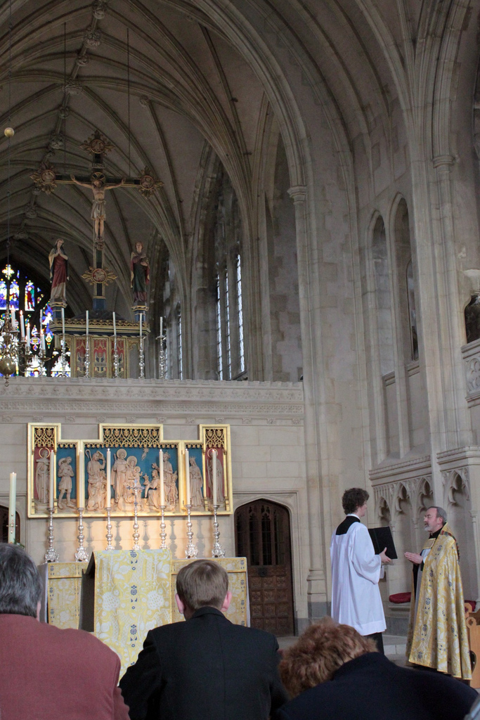 Solemn Evensong in the Chapel of the Resurrection, Pusey House, Oxford, England